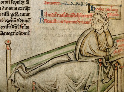 The Monk Matthew Paris on his deathbed. (British Library, Royal 14 C VII f. 218v)